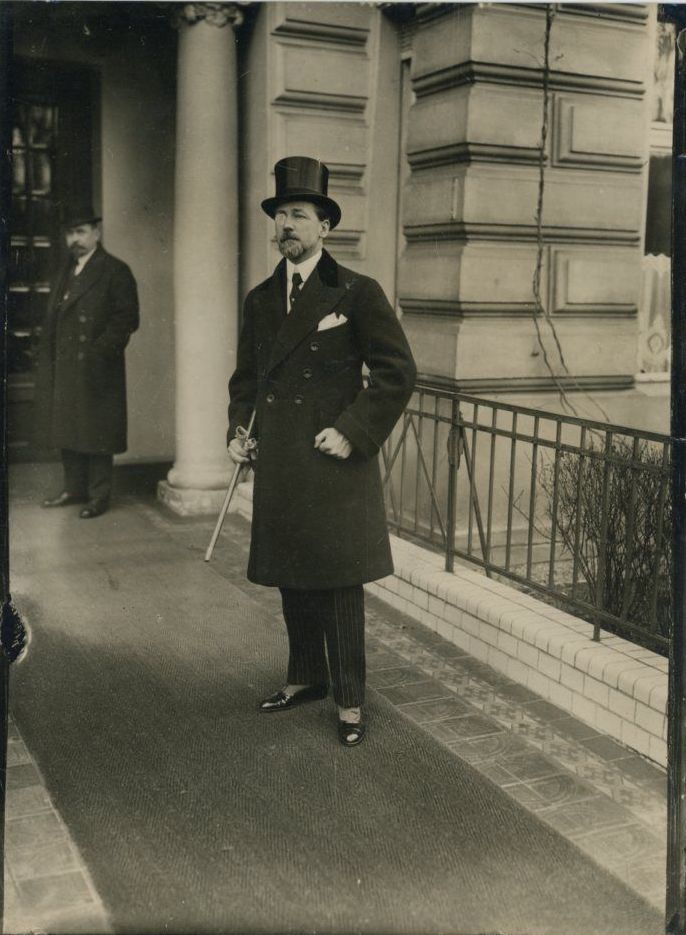 Oscar de Teffé von Hoonholtz, diplomat from Brazil,[1] father to Manuel de Teffé